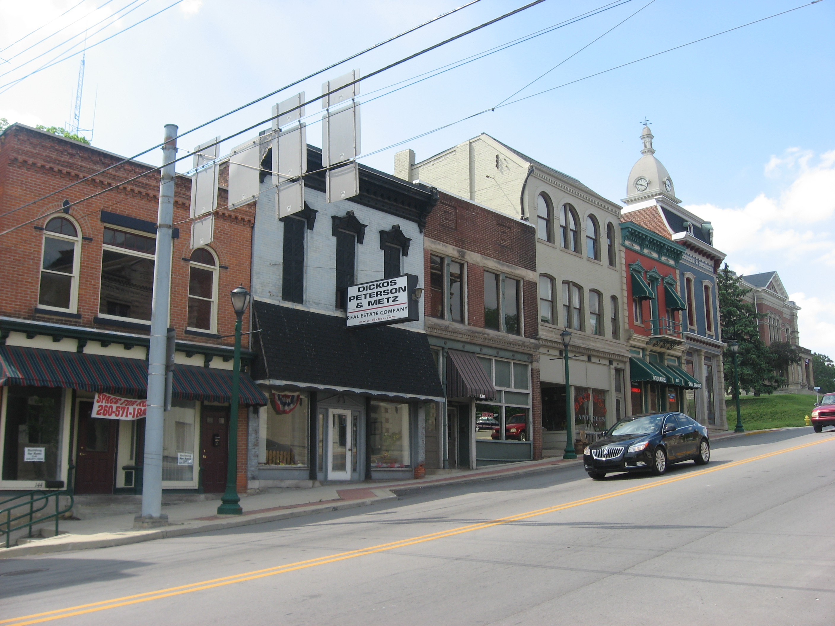 Buildings on the western side of the 100 block of S. Wabash Street (State Road 13) in downtown Wabash, Indiana, United States. This block is part of the Downtown Wabash Historic District, a historic district that is listed on the National Register of Historic Places.